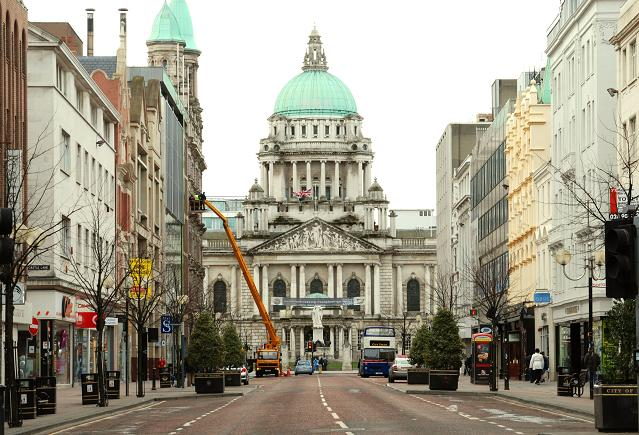 Donegall Place, Belfast. Towards the end of the 18th century, Lord Donegall, using statutory powers, undertook the rebuilding of central Belfast on a grand scale. It was an early example of town planning. Linenhall Street was demolished and replaced by Donegall Place - then a partly-residential street. Nothing survives from that era. Today's buildings range from Victorian masterpieces to early 21st century concrete. The City Hall presides over it all (it replaced the old white-linen hall). National multiples predominate and most of the upstairs offices have moved to other streets. See also 1174954.